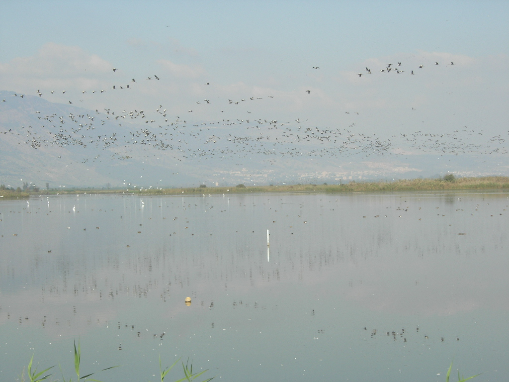 Cranes (Grus grus) flying over Agmon Ha-Hula lake, Hula Valley, north Israel